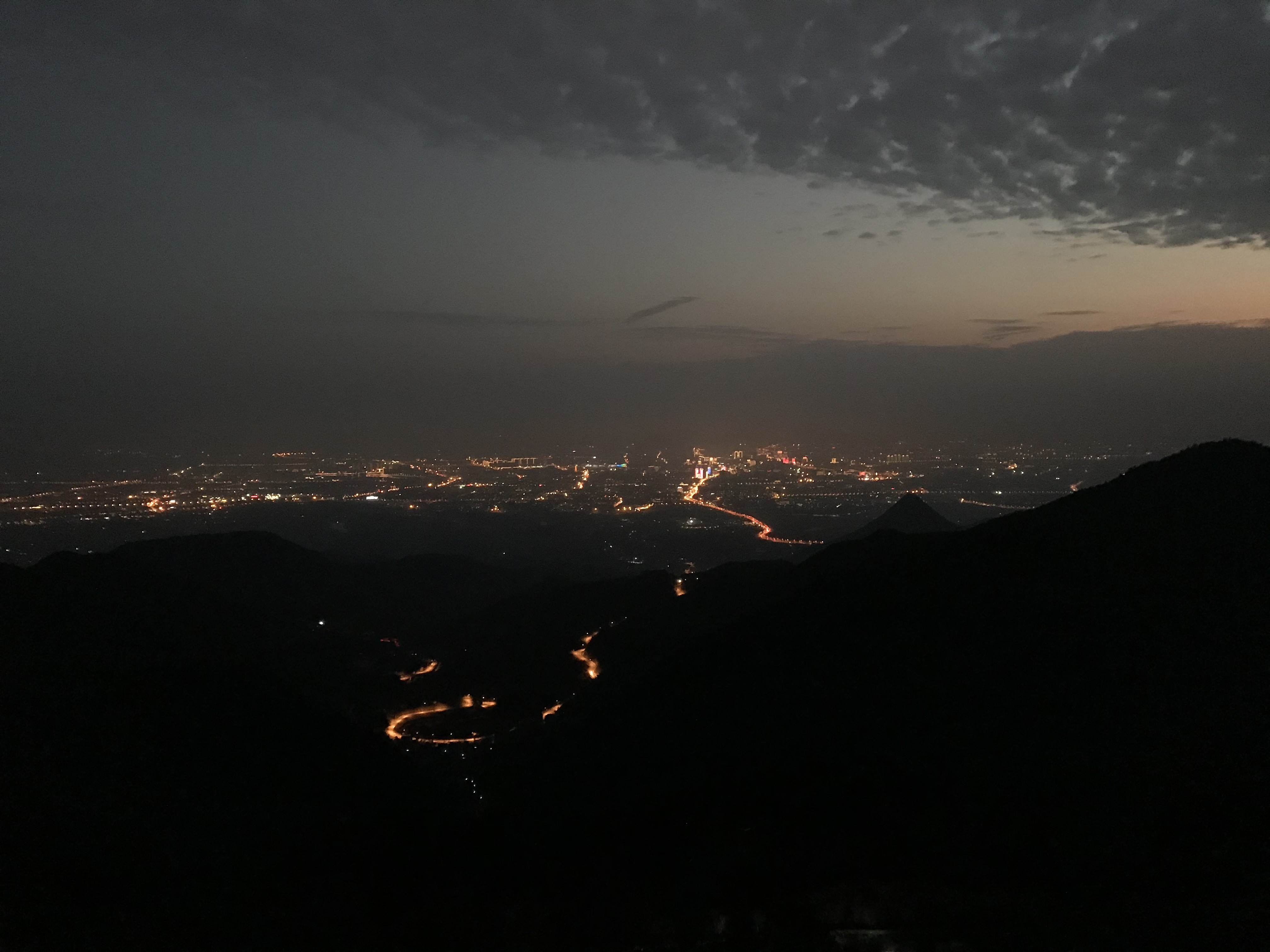 Kinda have a feeling of L.A...